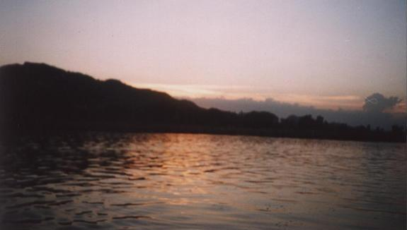 River Chenab